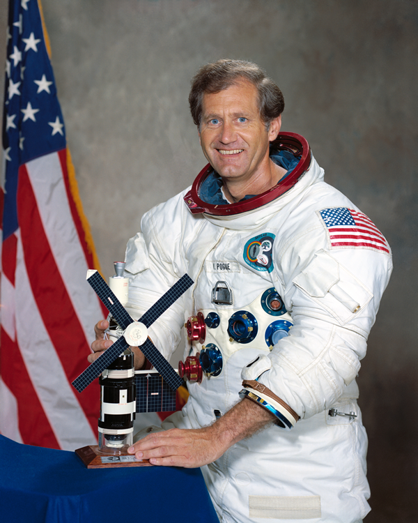 Astronaut William R. Pogue with Skylab model.